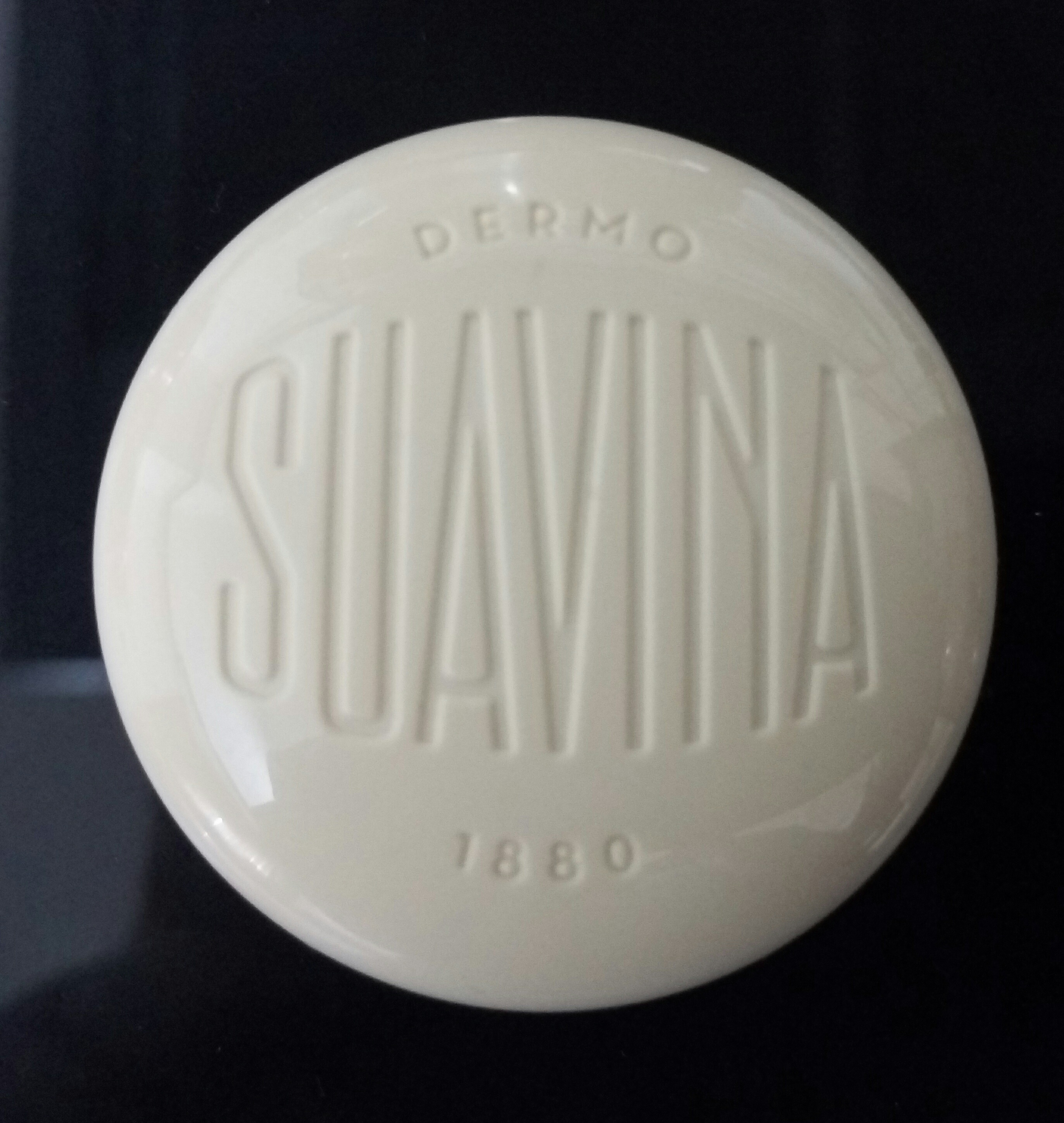 Suavina is a lip balm created in 1880 by pharmacist Vicente Calduch Solsona from Vilareal, Castelló.